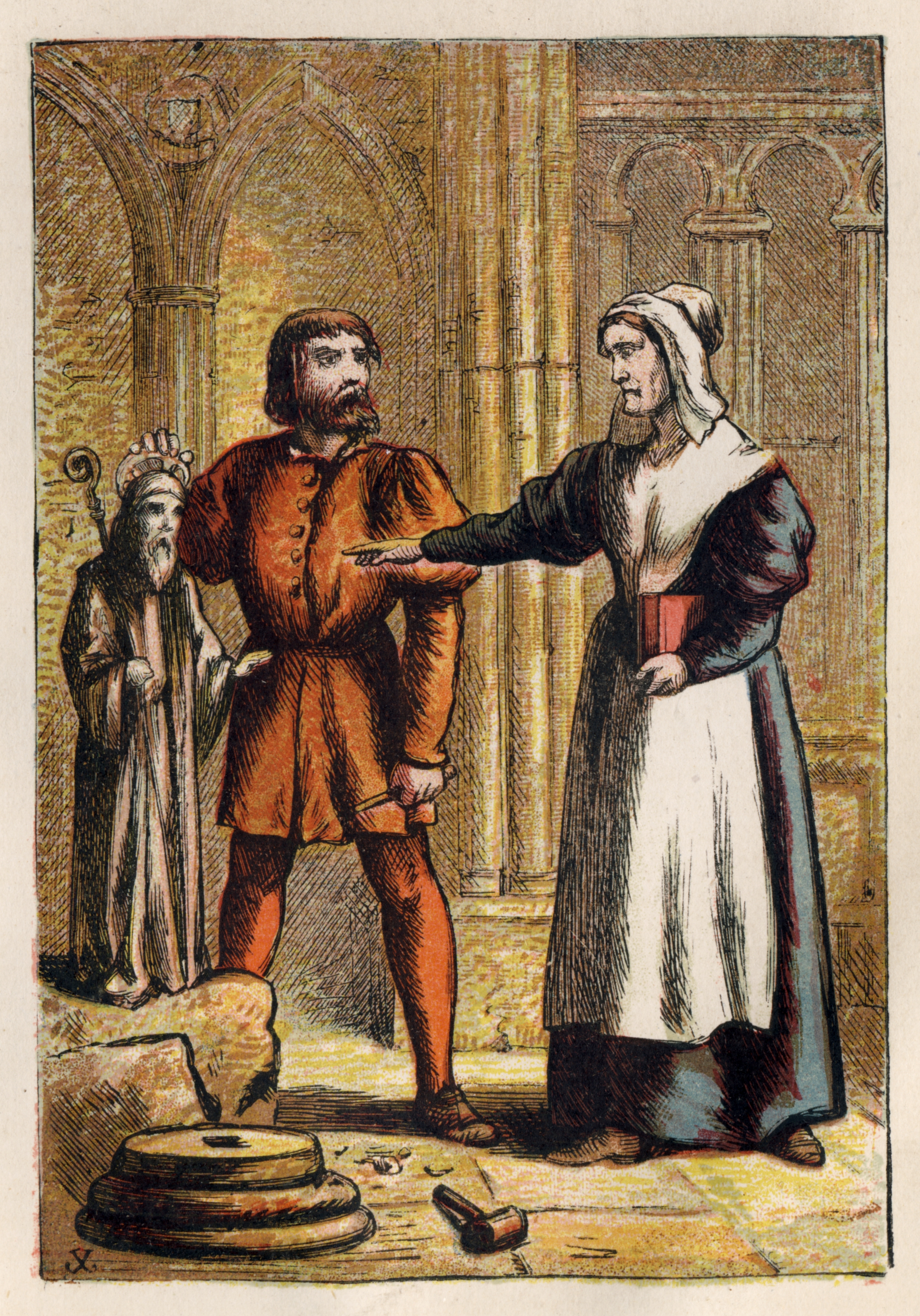 "Prest's Wife and the Stonemason", from an 1887 copy of Foxe's Book of Martyrs illustrated by Kronheim.